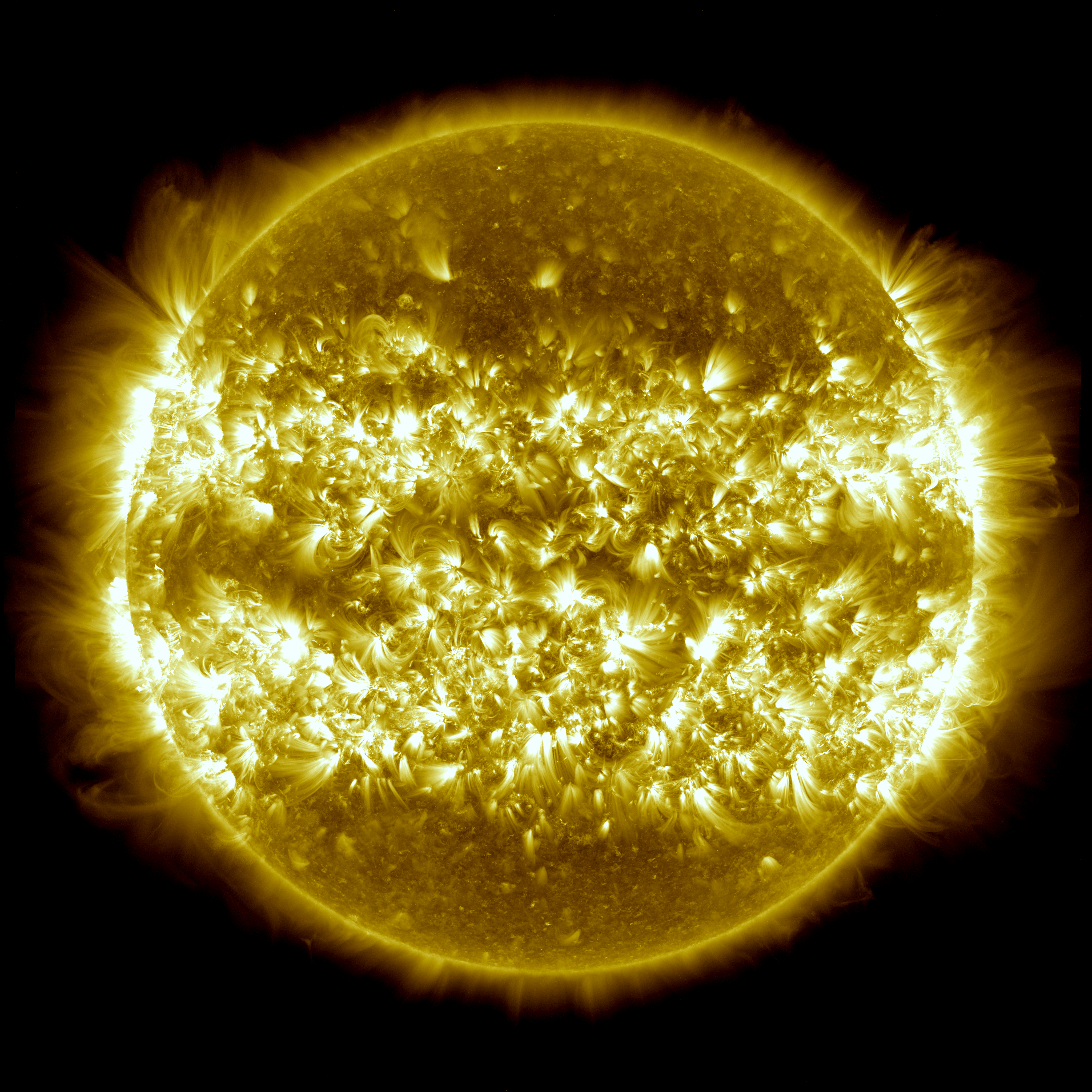 This image is a composite of 25 separate images spanning the period of April 16, 2012, to April 15, 2013. It uses the SDO AIA wavelength of 171 angstroms and reveals the zones on the sun where active regions are most common during this part of the solar cycle.